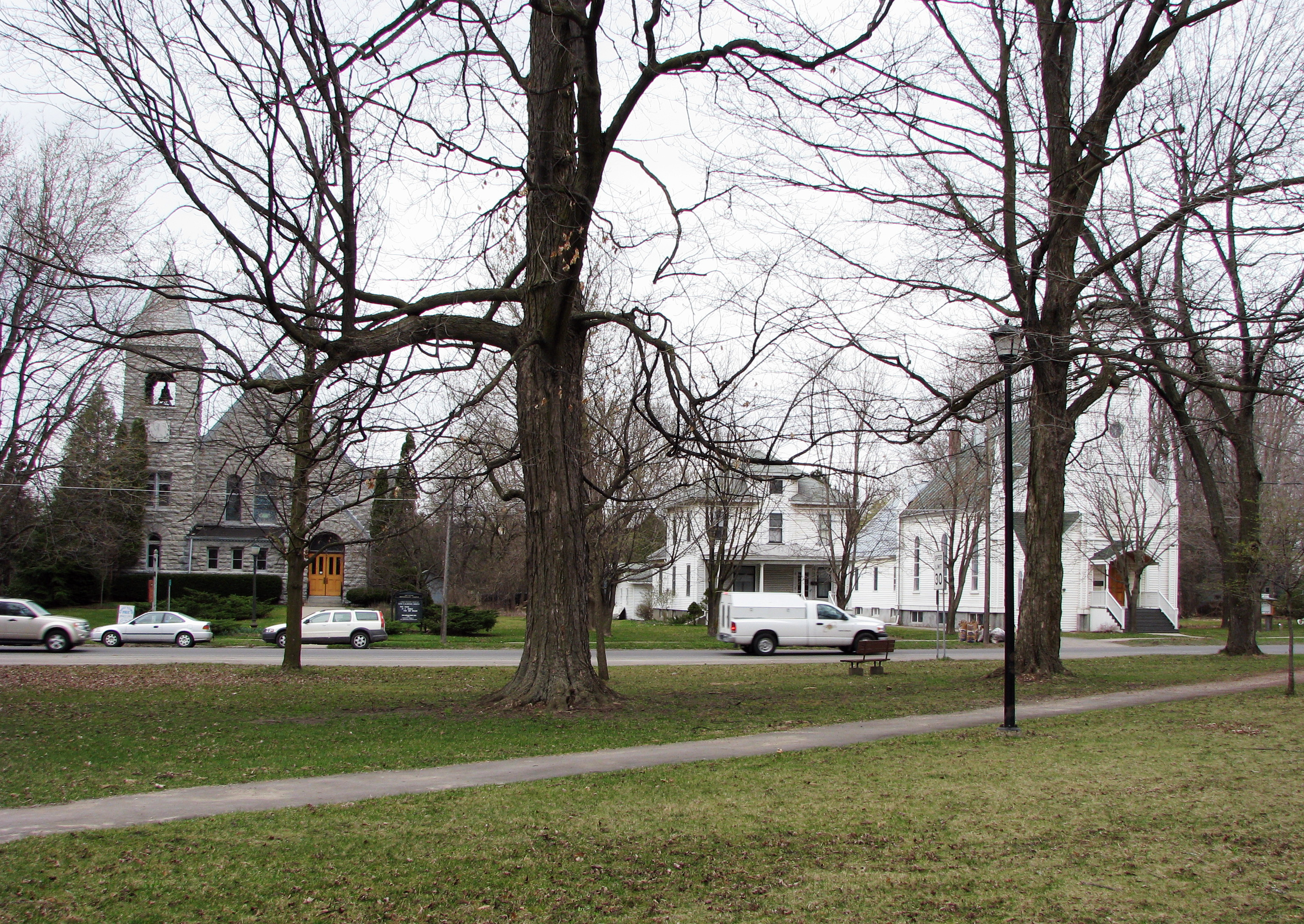 Village Park Historic District, 5 1/2 and 9 East Main Street, Canton, New York